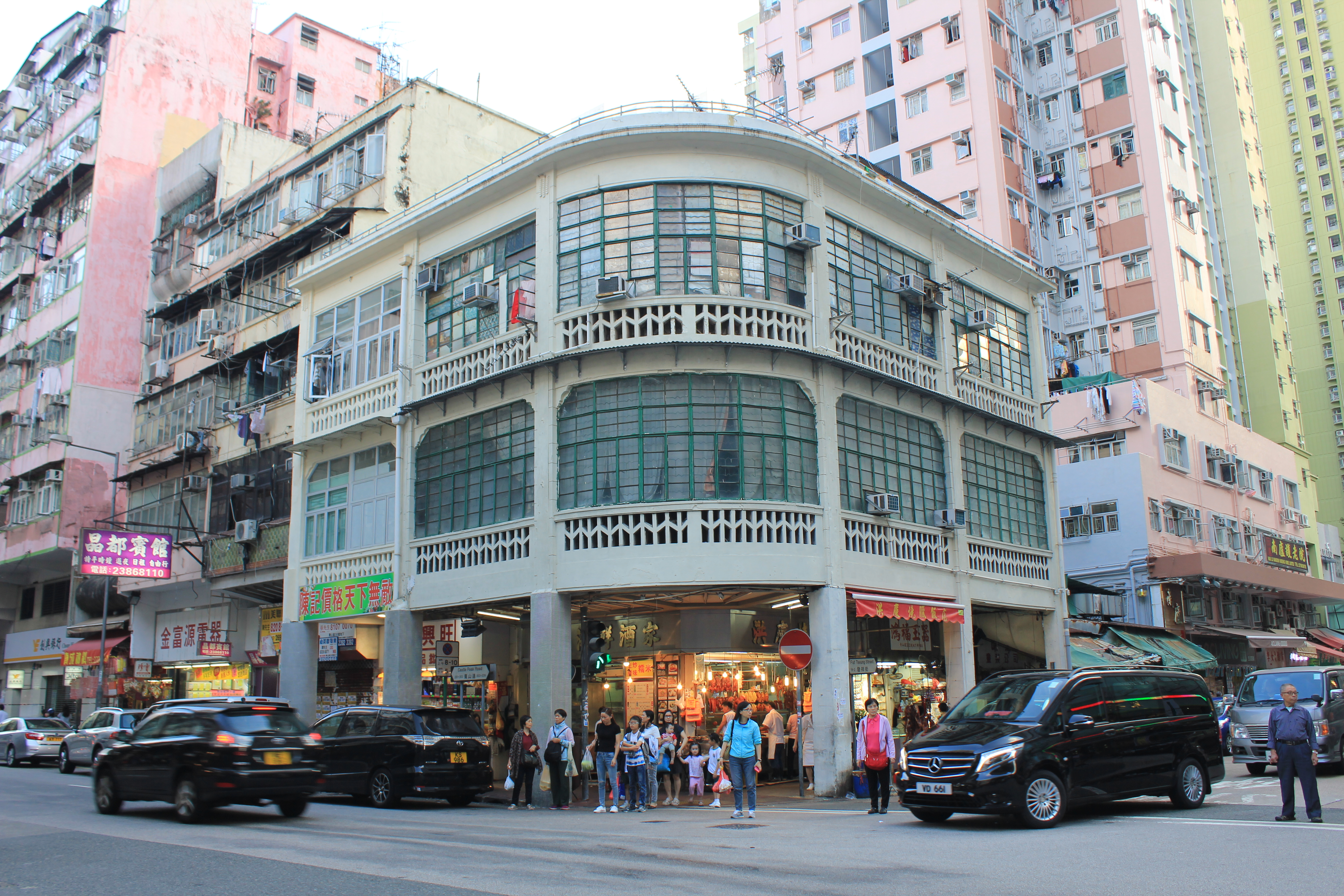 301 & 303 Castle Peak Road is a pre-war Tong Lau (Chinese Tenement) built in 1943. It is located at the intersection of Castle Peak Road and Fat Tseung Street in Cheung Sha Wan. It is now one of the three remaining round corner tenement houses in Hong Kong.